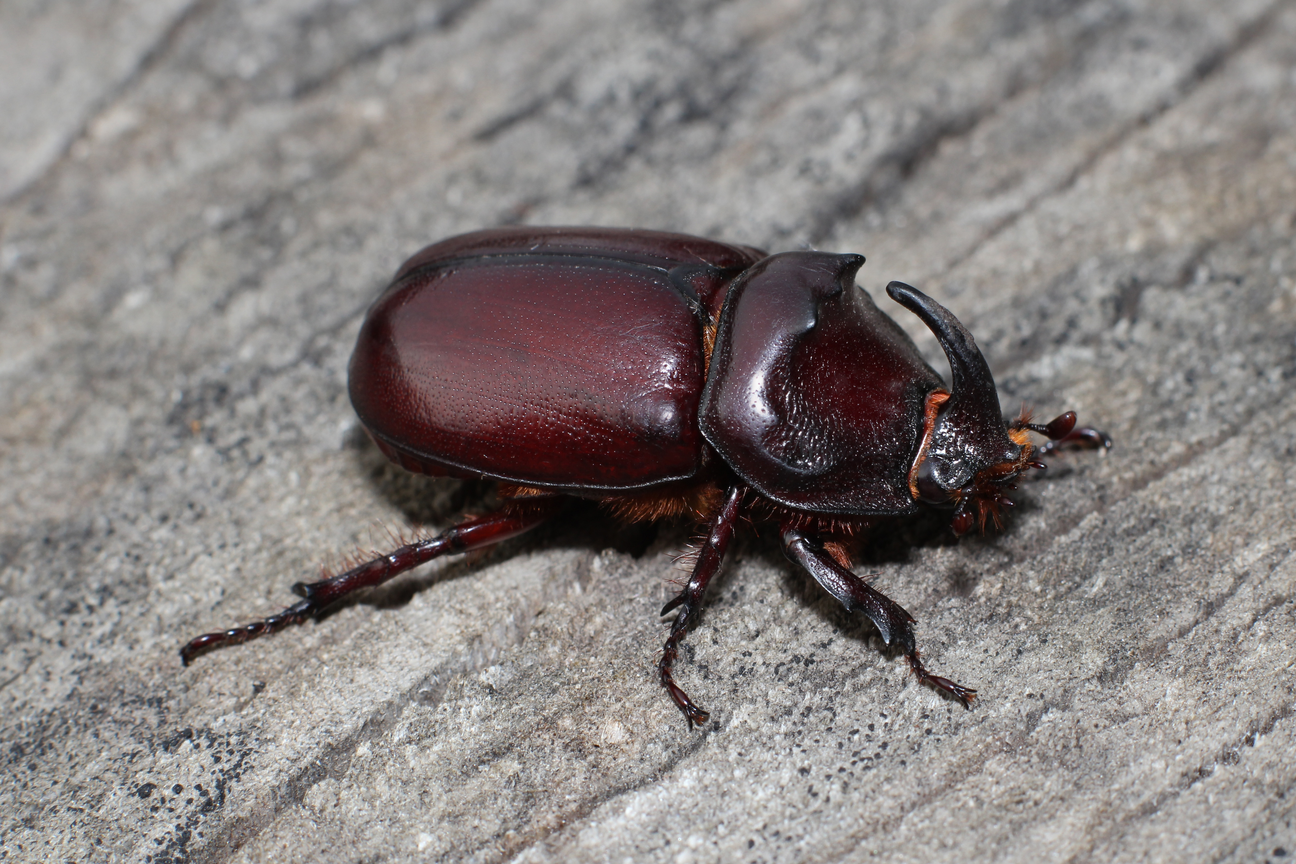 European Rhinoceros Beetle male. Ukraine.